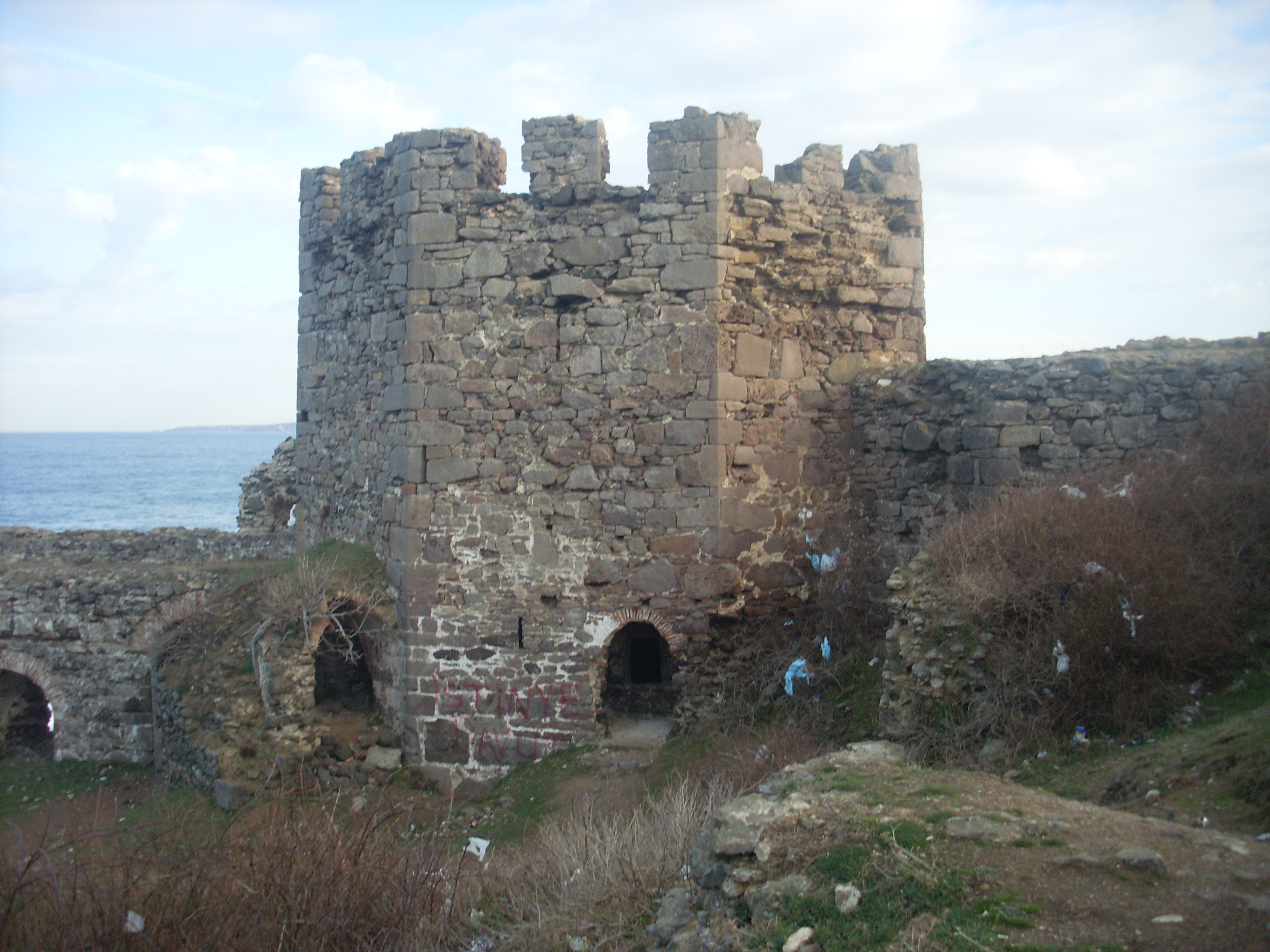 Rumeli Feneri Castle p5, Jan 2014